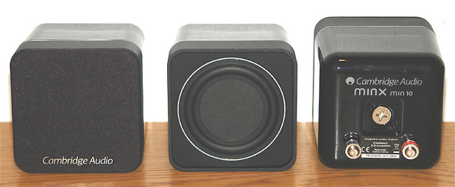 Cambridge Audio MINX